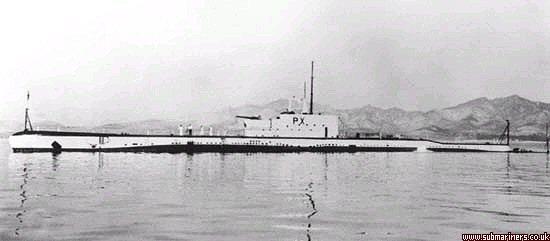 The submarine HMS Phoenix I have contacted every website I have found which uses the image. The author could not be determined.